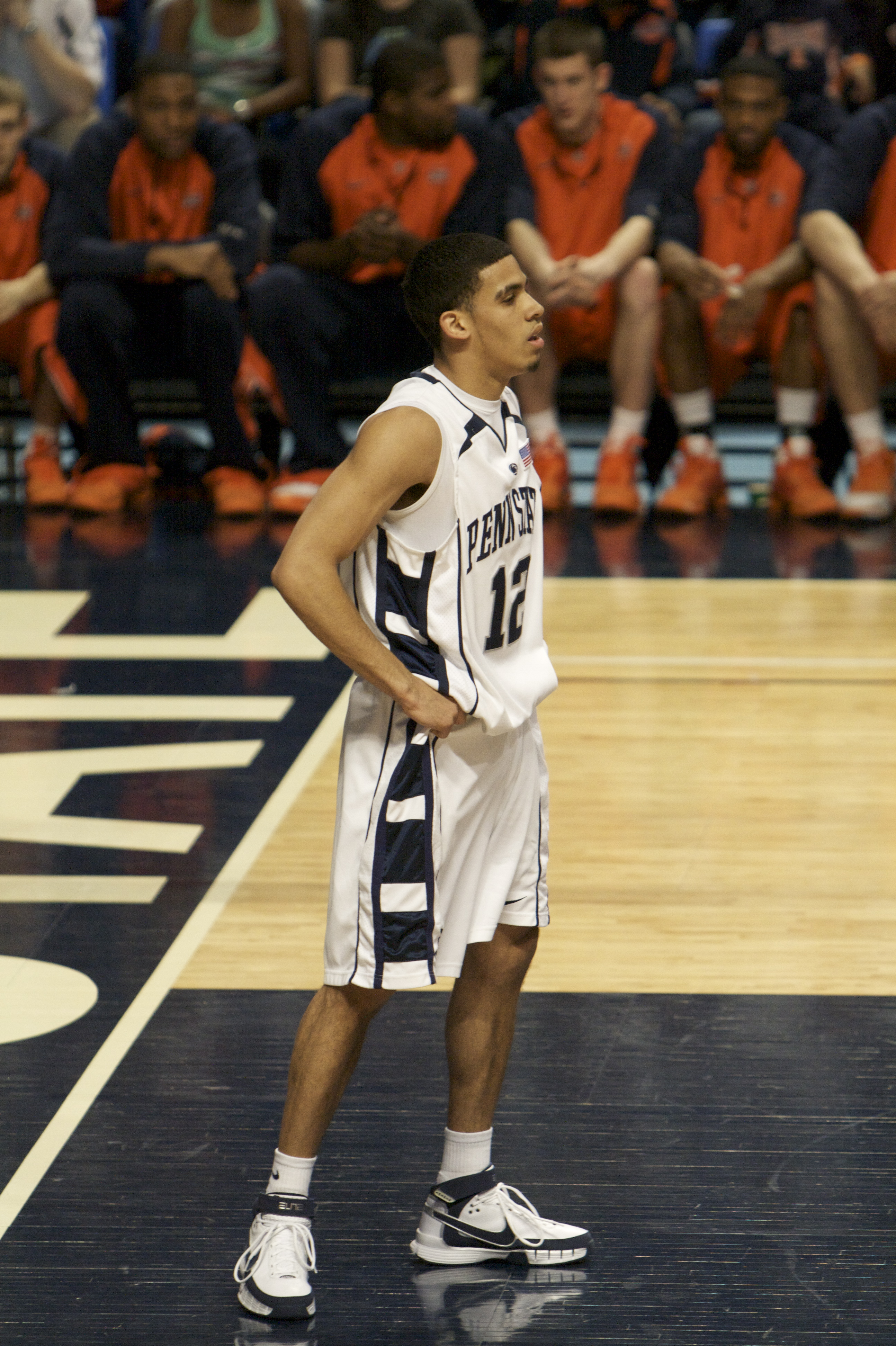 Talor Battle